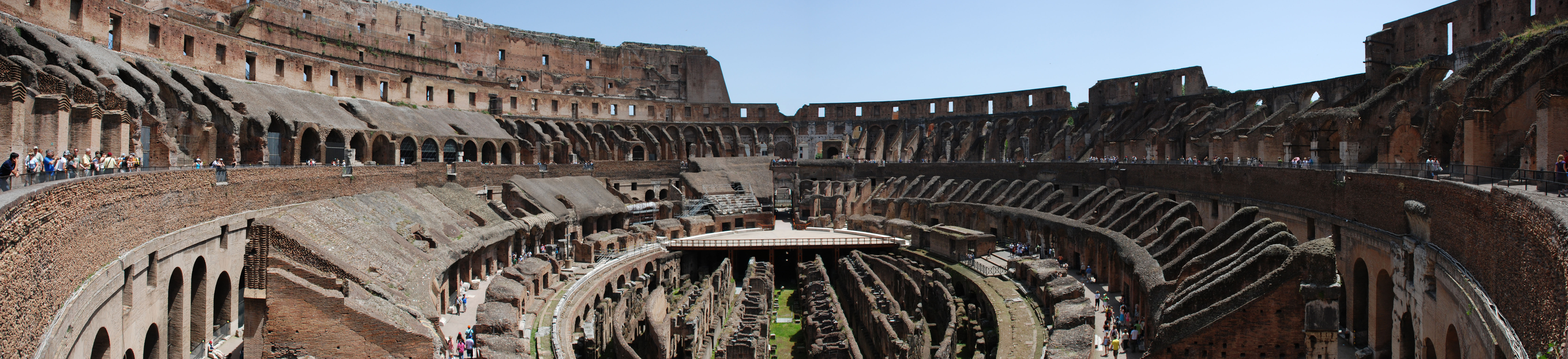 The inside of the Roman Colosseum seen from the second level. Panorama made from 4 photos.